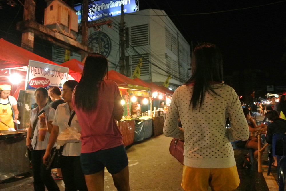 Night Market at Hat-Yai Thailand